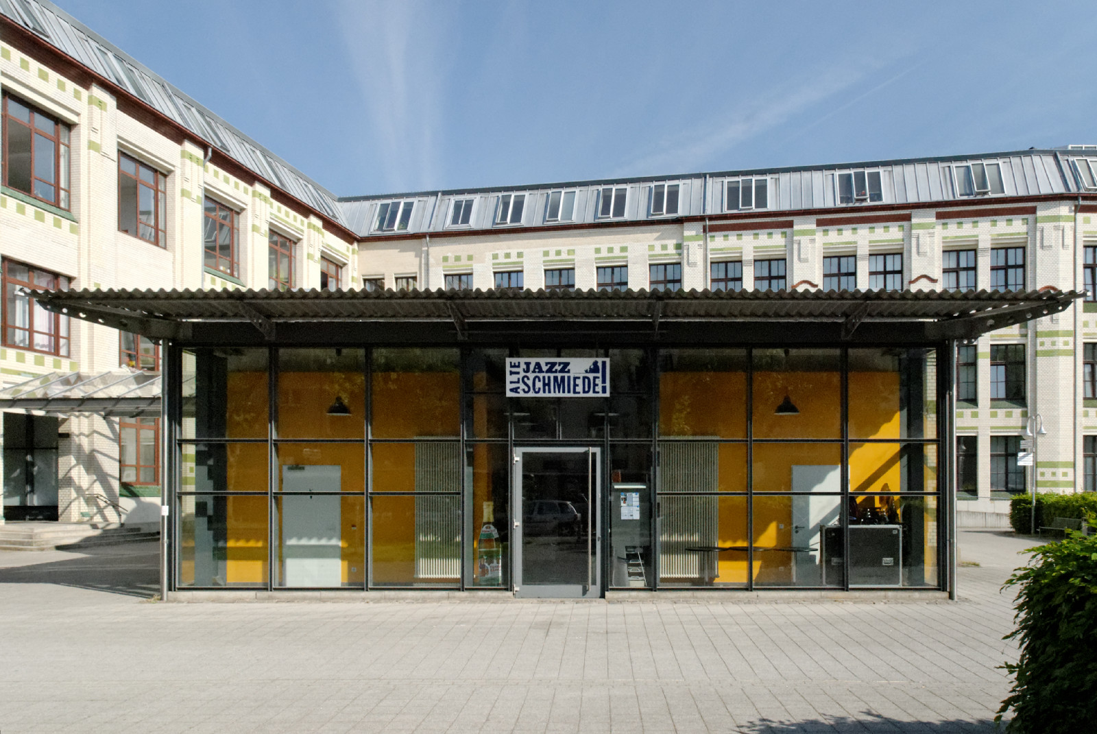 Jazz-Schmiede in Düsseldorf-Bilk, Germany